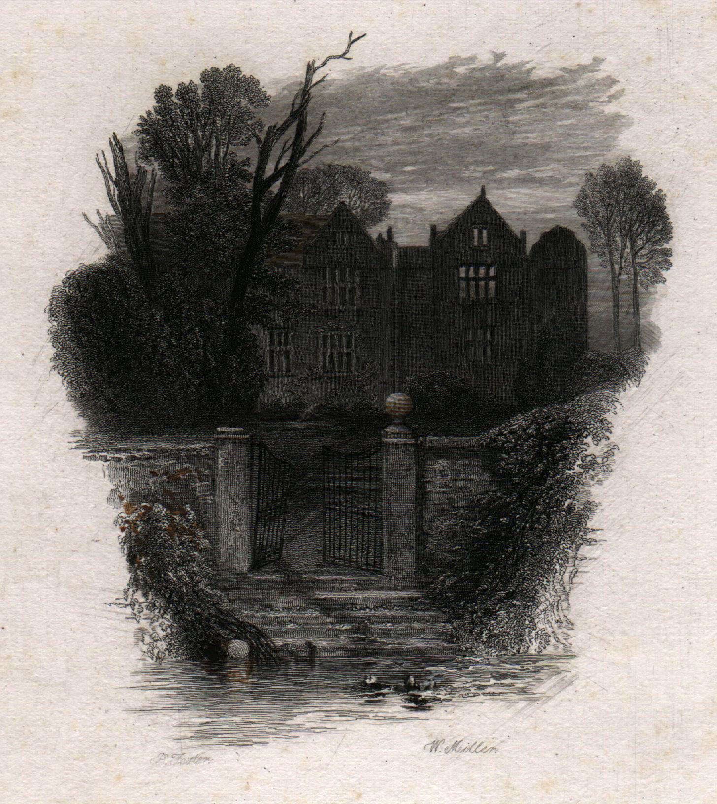 The Haunted House 'An old deserted mansion', touched proof engraving by William Miller after Birket Foster, published in Hood's Poems p42, again illustrated by Birket Foster, E. Moxon, Son & Co., London 1872